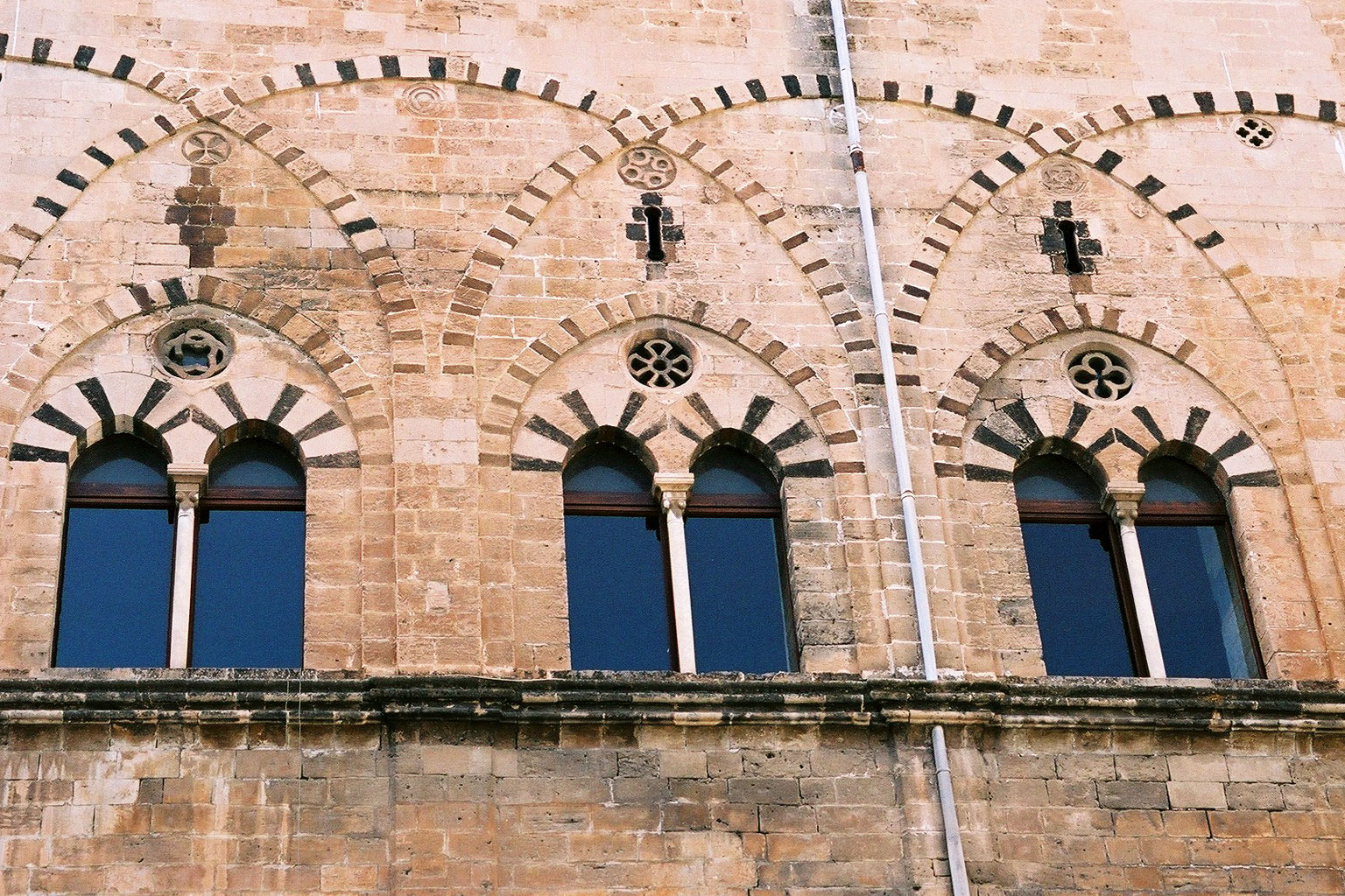 Palazzo Sclafani, Palermo Windows in the upper floor